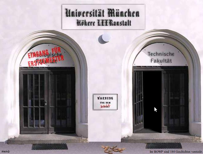 Screenshot oft Bastard Open Web Project on